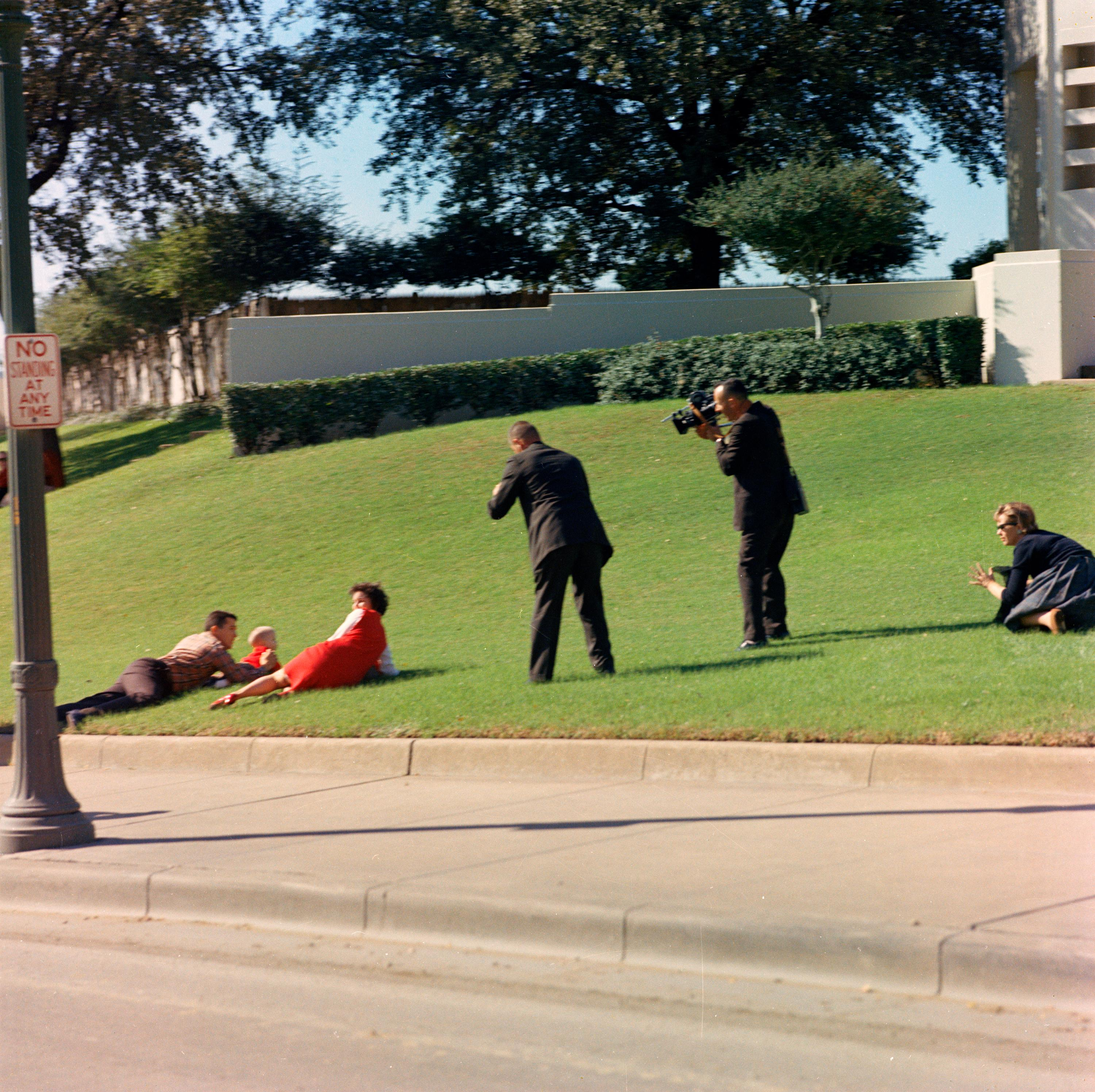 Bill and Jean Newman and their children fall on the grass north of Elm Street seconds after the assassination of U.S. President John F. Kennedy in Dallas, Texas, believing that they are in the line of fire. Photographing them are Tom Craven and Tom Atkins. On the grass at right is Cheryl McKinnon. (Dealey Plaza)